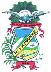 ancient coat of arms of the Brazilian state of Alagoas, established by Decree nº. 53 of May 25th, 1894.